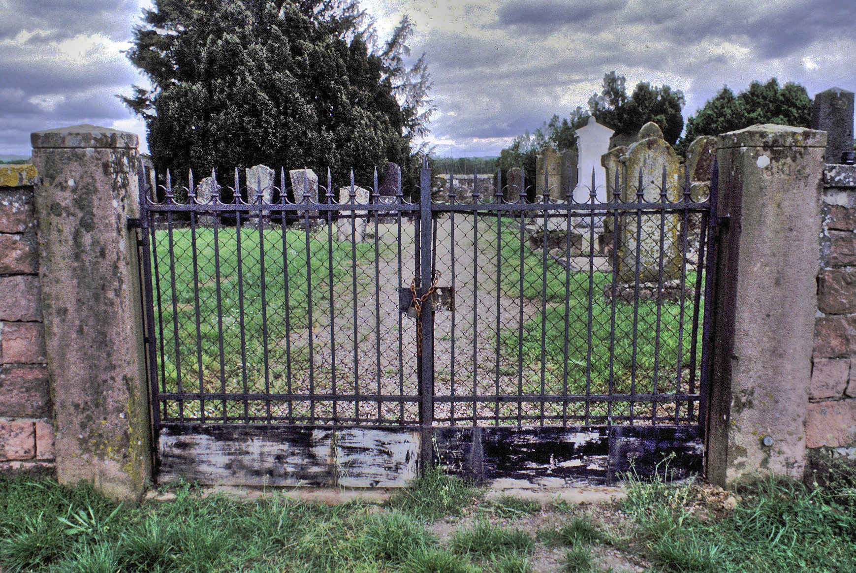 Front Gate Jewish Cemetery Nonnenweier Germany